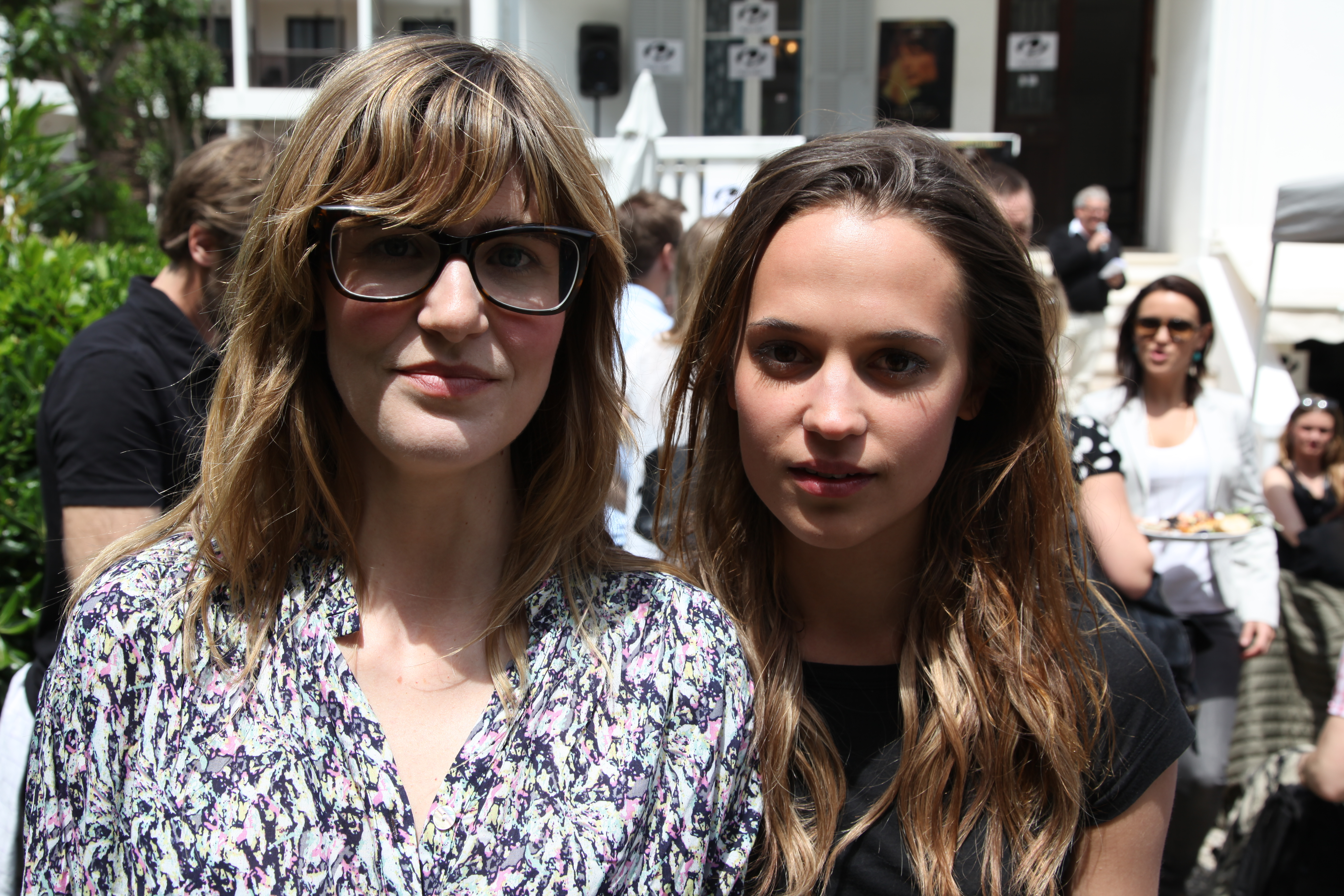 Lisa Langseth and Alicia Vikander at Cannes Film Festival 2012.